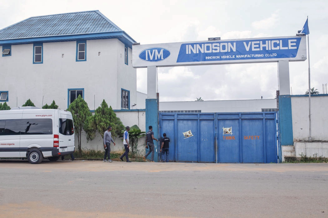 Main entrance into the Innoson factory in Nnewi, Anambra, Nigeria